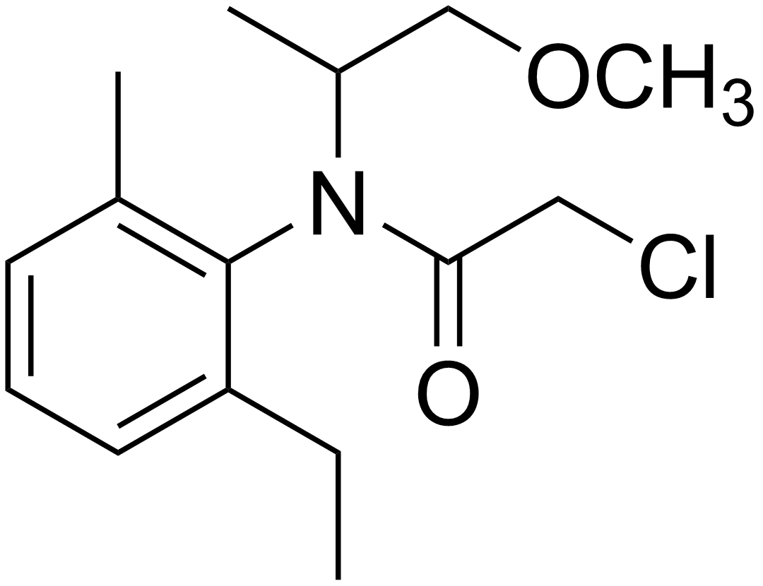 chemical structure of metolachlor